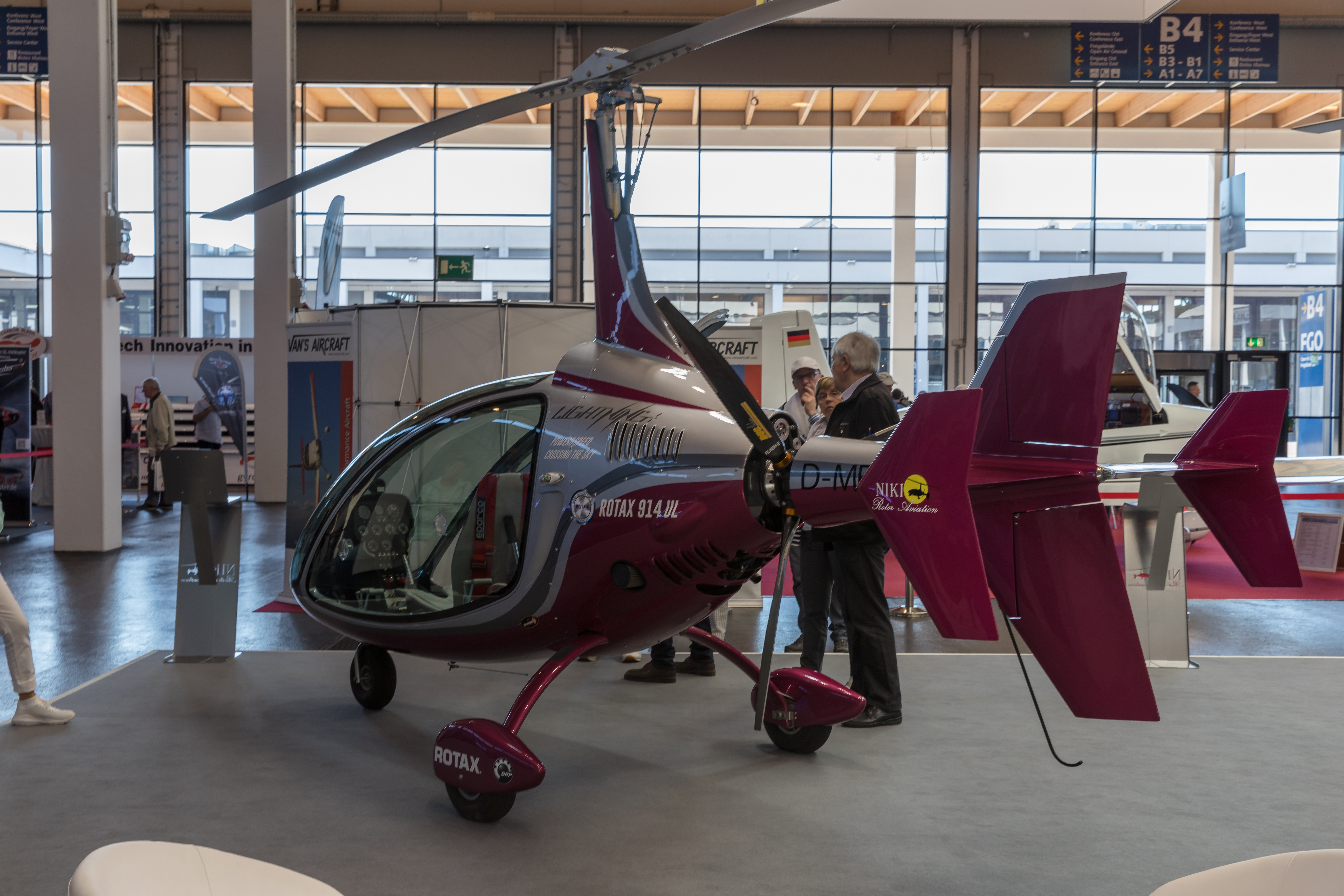 NIKI Lightning autogyro at AERO Friedrichshafen 2018